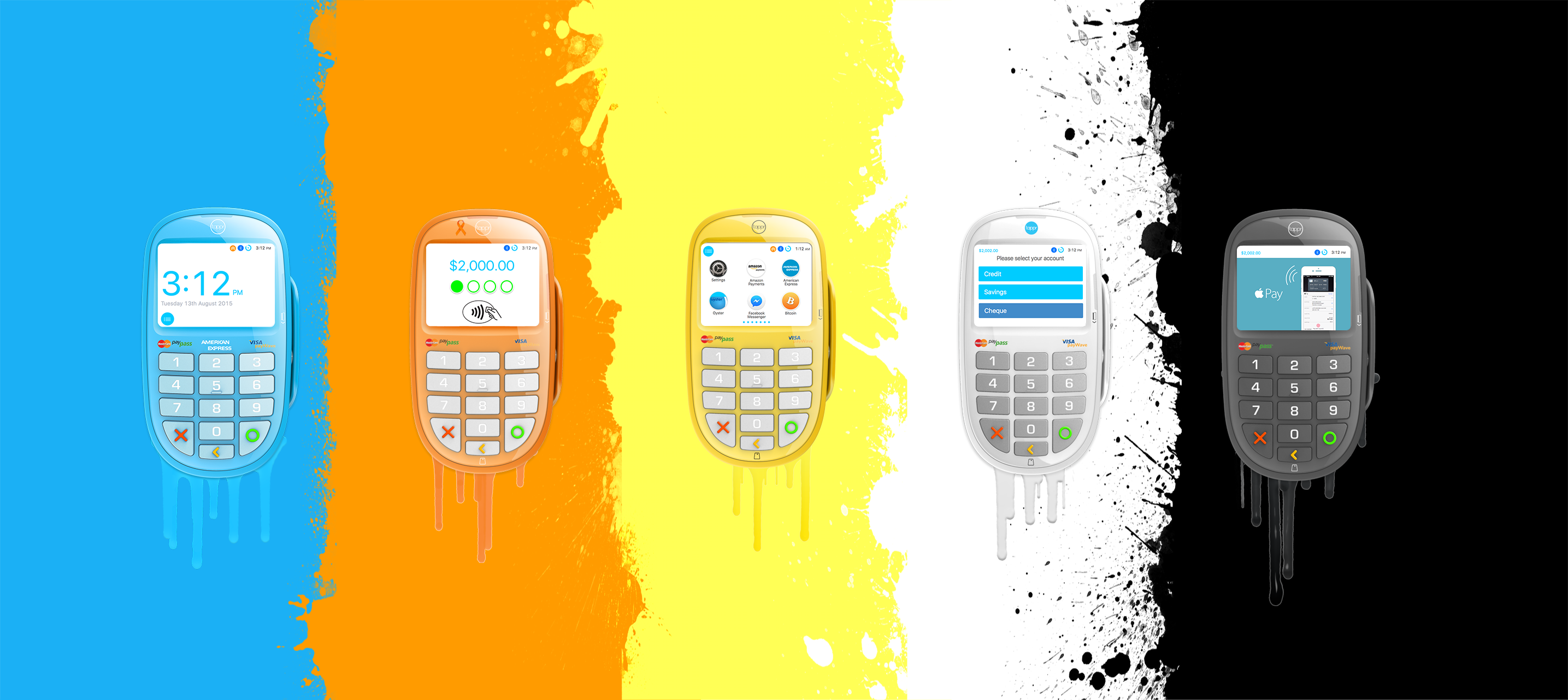 Tappr Card Readers in action